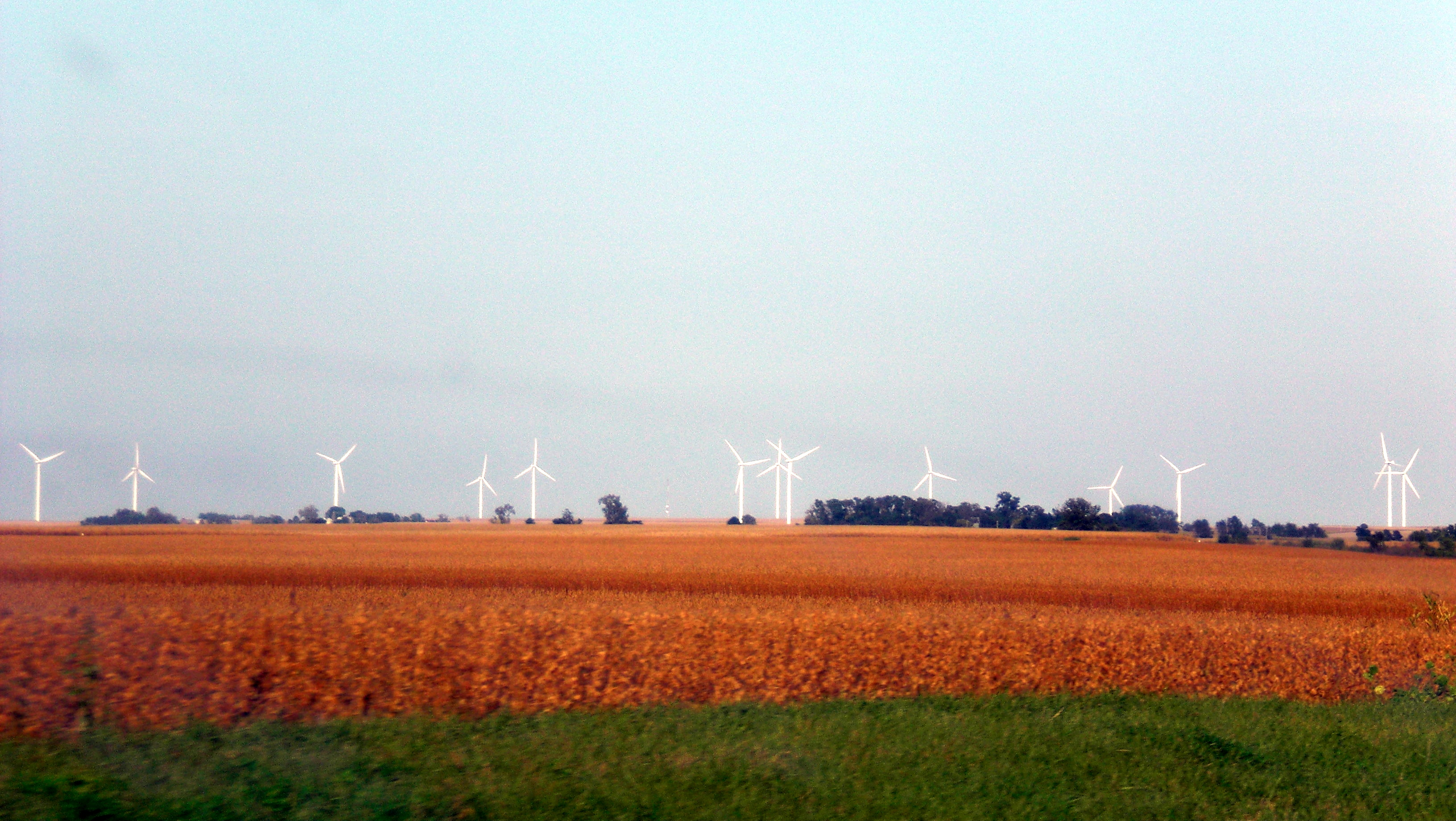 A view of the Crescent Ridge Wind Farm from Bradford, IL farmhouse over a grain field